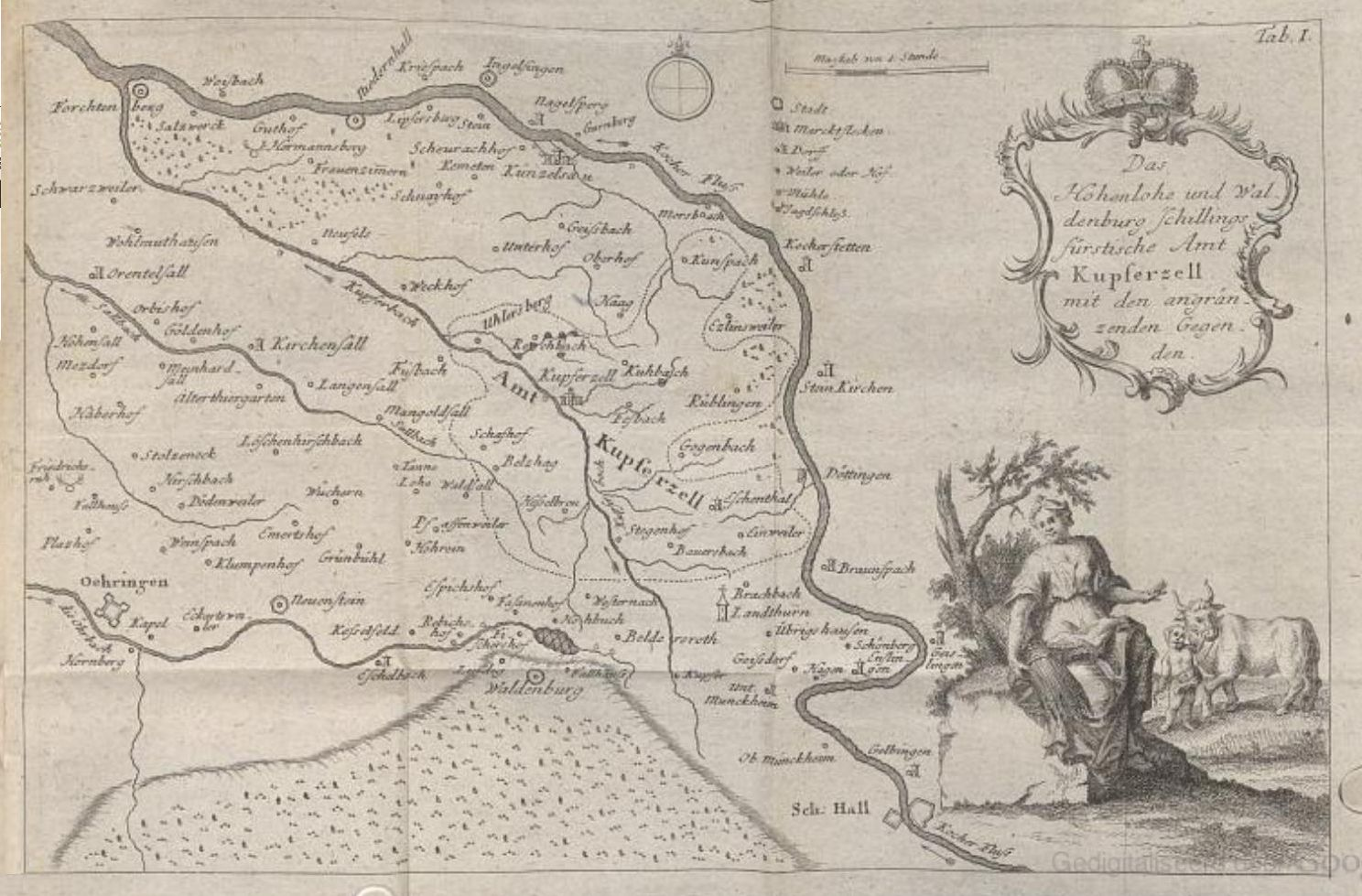 Lehrbuch für die Land- und Haußwirthe, 1782, plate I